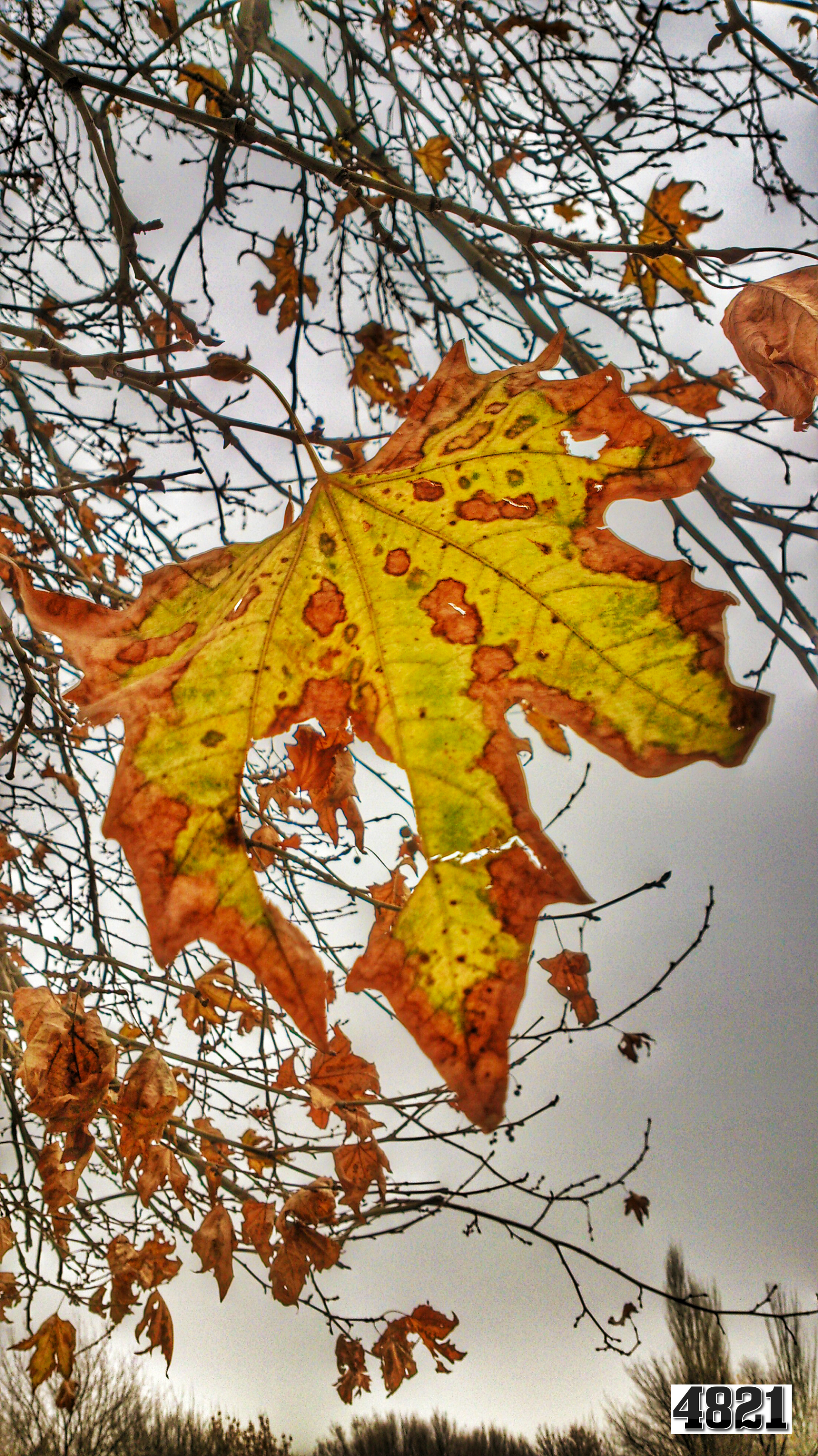 autumn